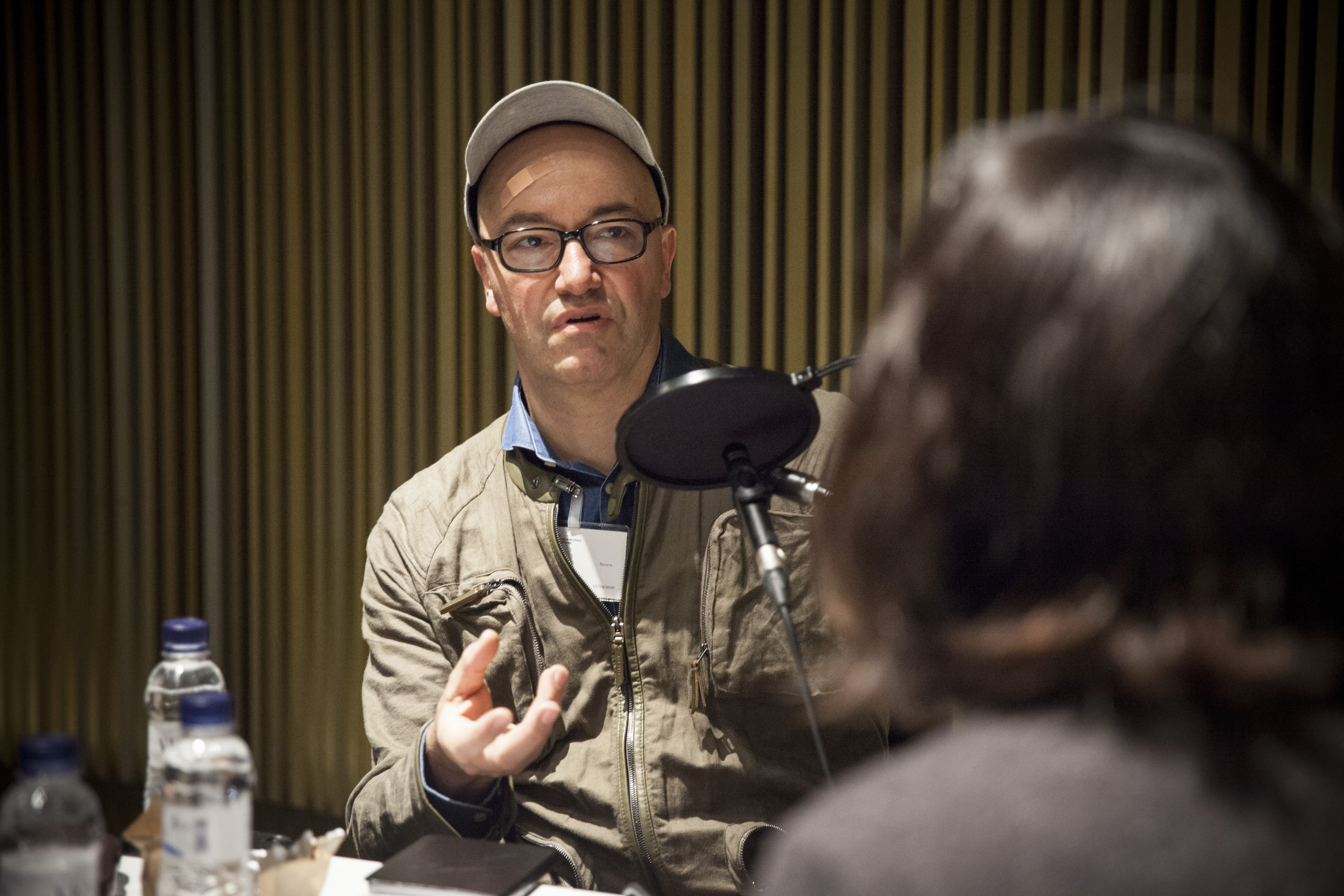 rwm.macba.cat/ Foto: Gemma Planell / MACBA, 2016.